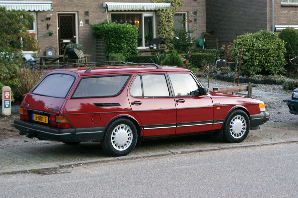 13-NBT-2 Only 2 made! The other one is in the Saab Museum in Sweden.